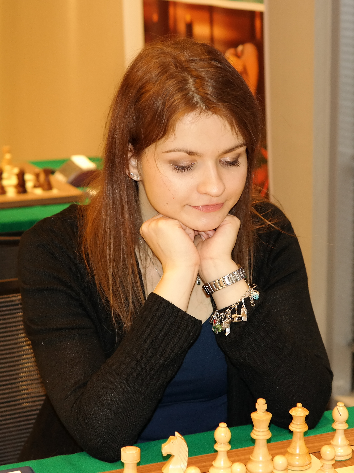 WFM Katarzyna Adamowicz, Polish Chess Championship, Warsaw 2014